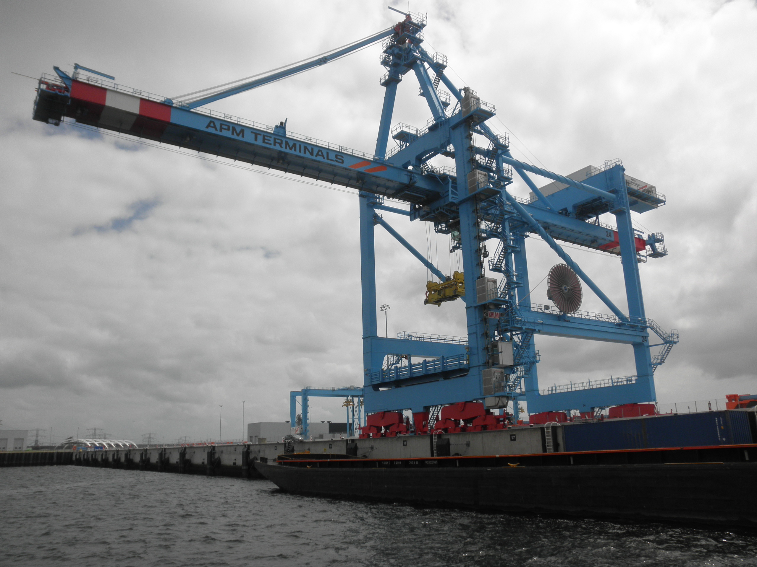 Containercrane for inland barges and coasters at the APM Terminals MV2 terminal in Rotterdam.